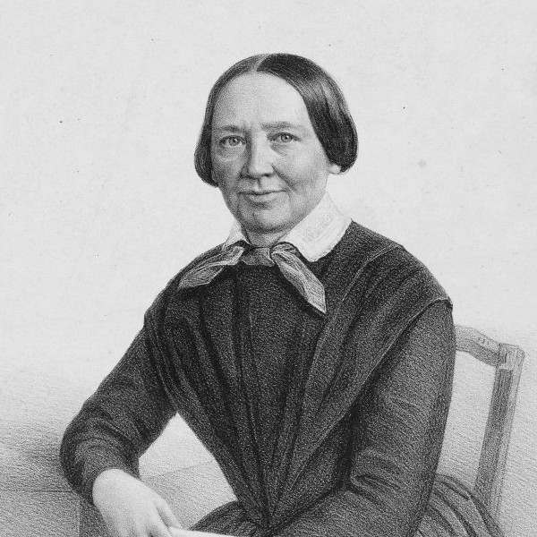 Depicted person: Emilie Zumsteeg, Lithographie